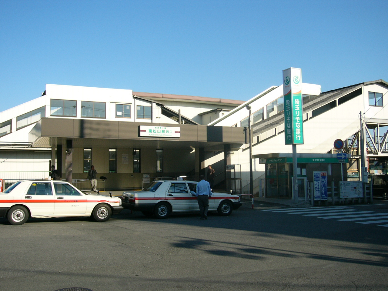 West entrance of Higashi-Matsuyama Station on the Tobu Tojo Line, before rebuilding